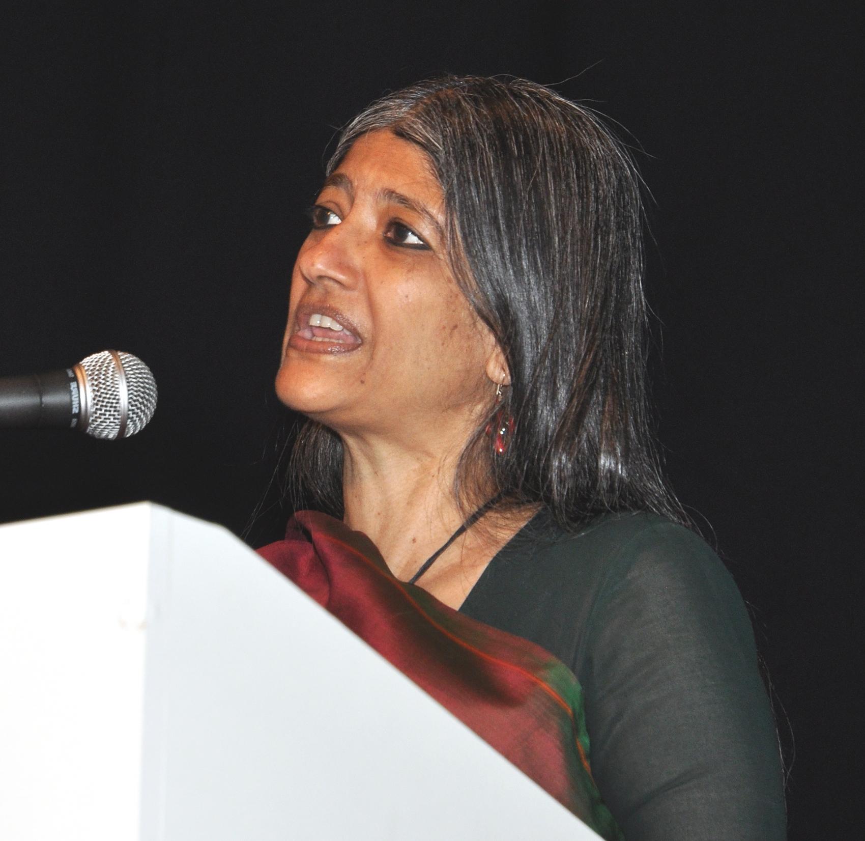 Prof. Jayati Ghosh, Jawaharlal Nehru University, New Delhi, at Freiheizhalle München, "Gipfel der Alternativen" 2015